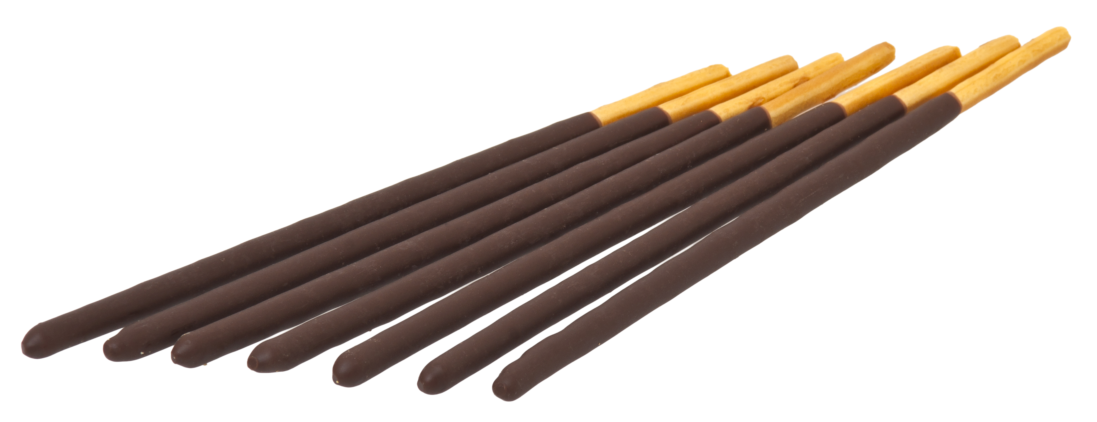 Sticks of Pocky. A biscuit stick covered in chocolate that is popular in its native Japan.